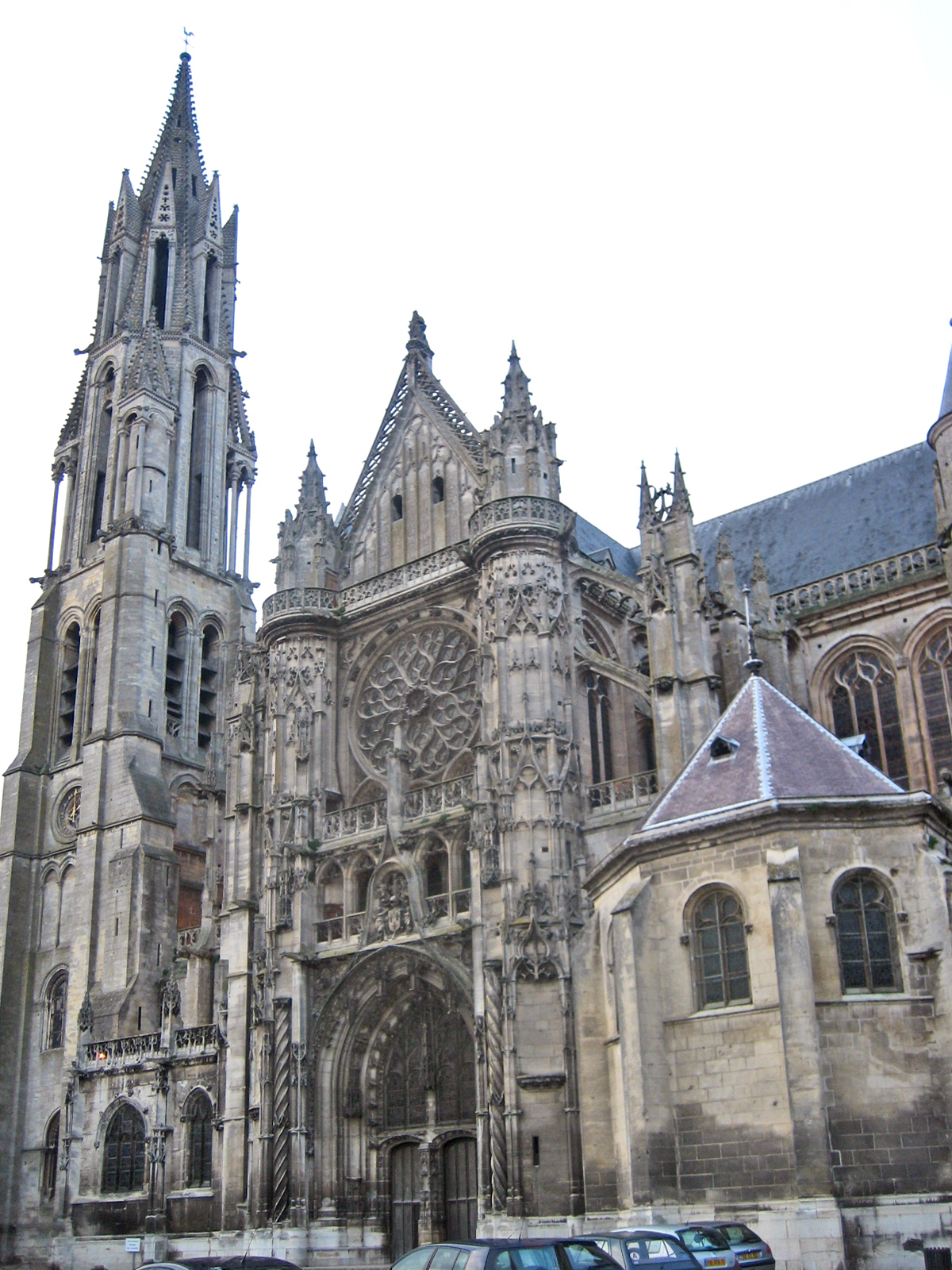 Notre-Dame Cathedral, Senlis (Oise).